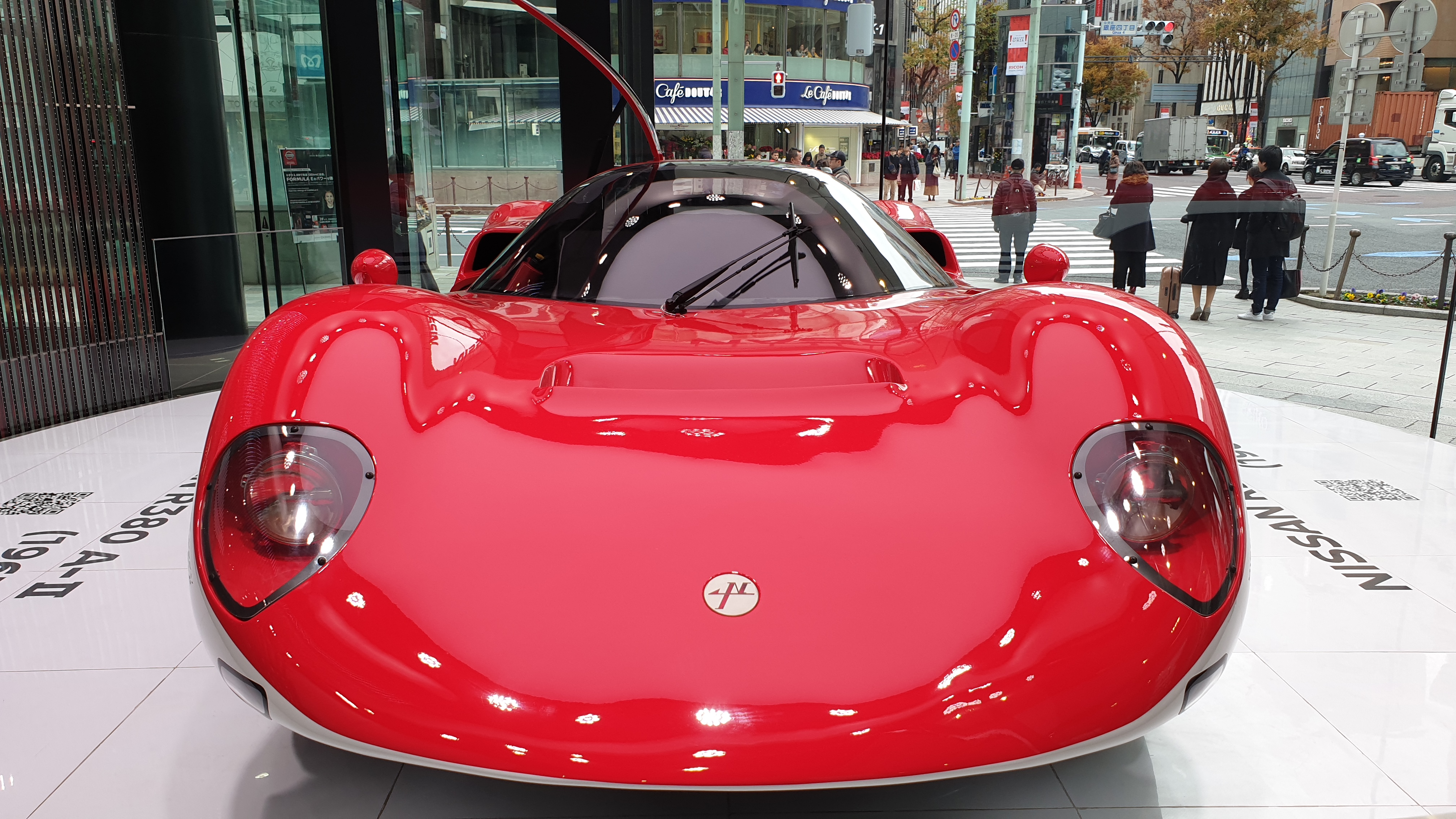 Nissan R380 A-II (1967) at Nissan Crossing showroom in Ginza, Tokyo (Dec 2019) - front